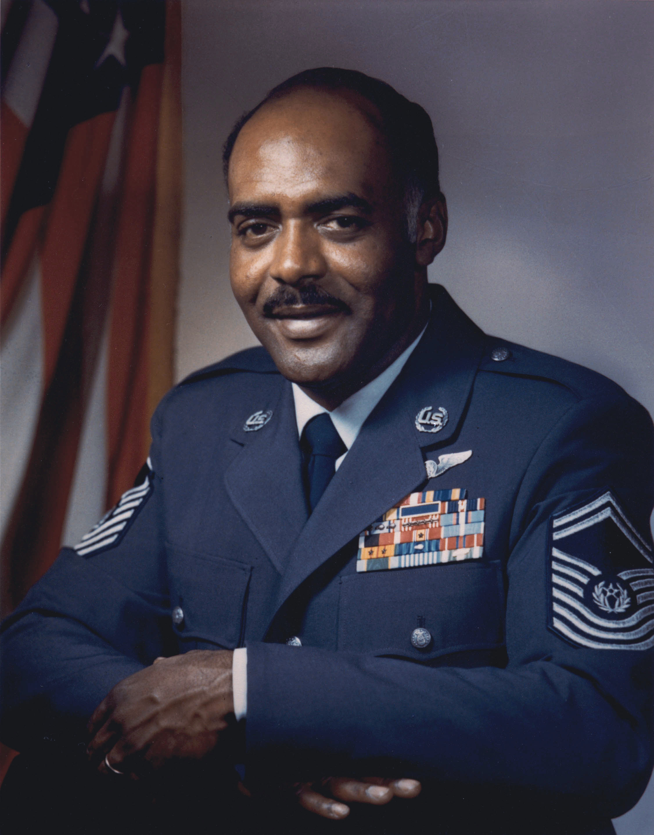 Thomas N. Barnes, 4th CMSAF